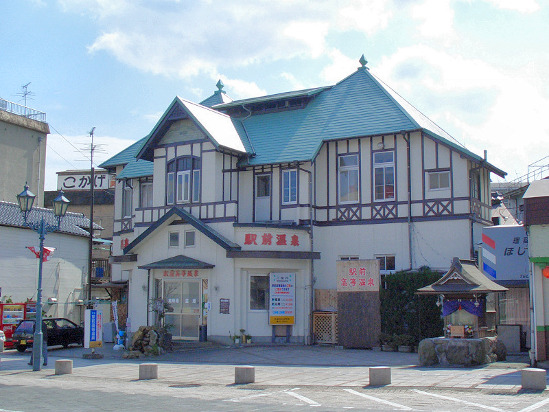 Ekimae-Koto Onsen public bath, located in Beppu Onsen, Oita, is close to Beppu Station.